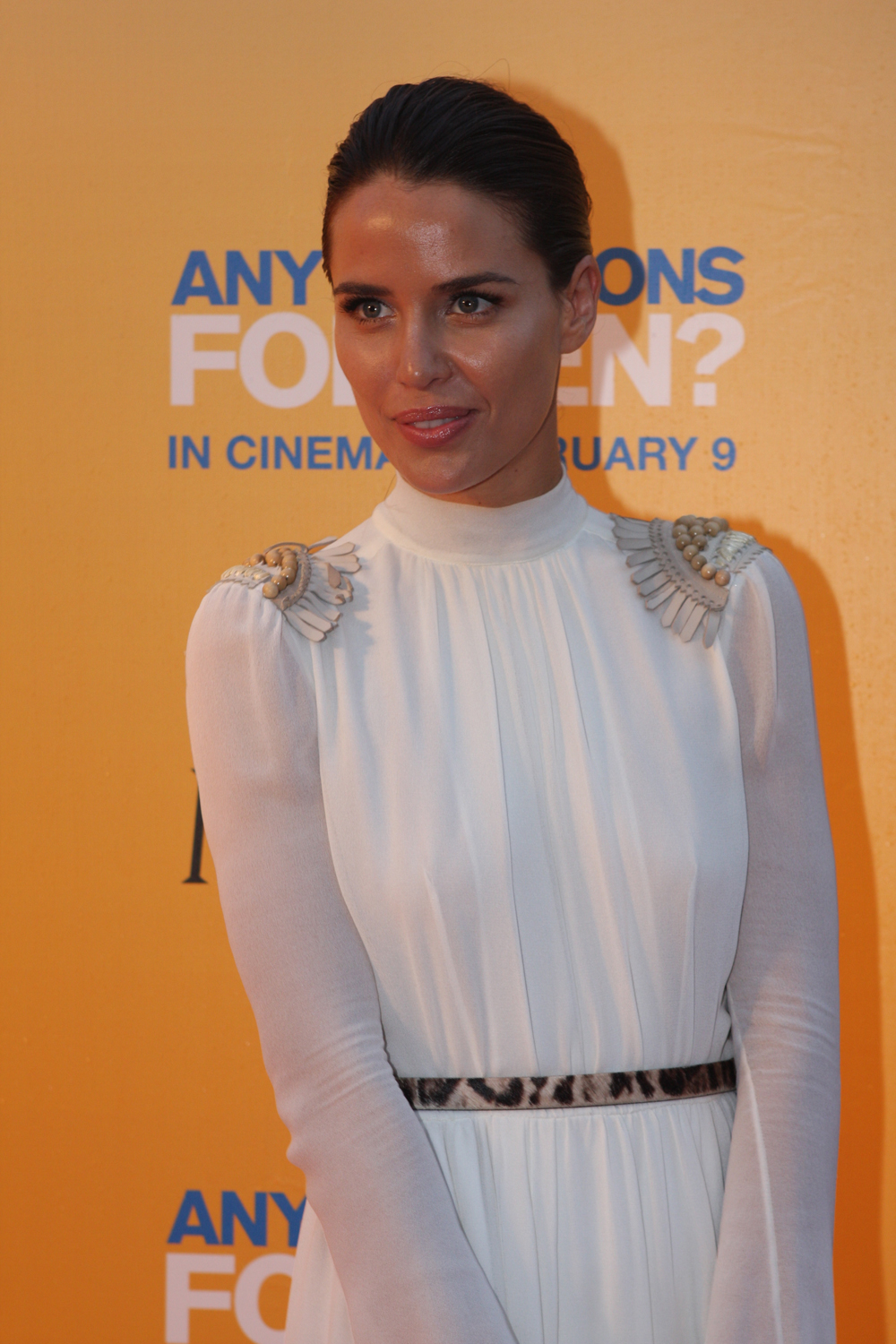 Australian actress Jodi Gordon at the Any Questions for Ben? Premiere In Sydney, Australia, February 2012